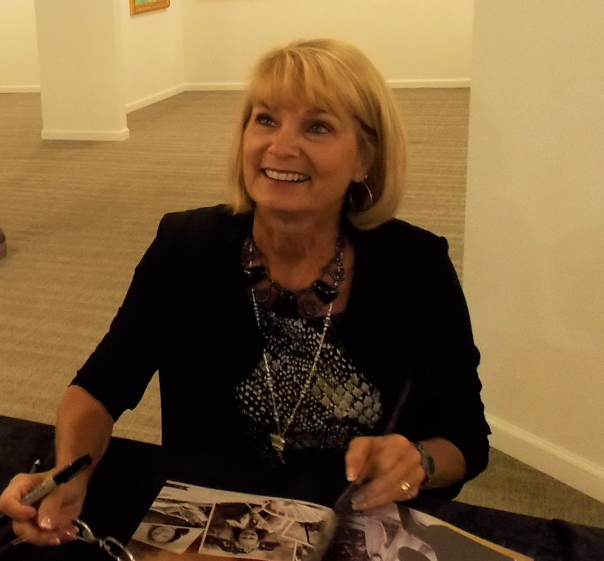 Judith Ford Nash was Miss America 1969. The photo was taken at an autograph session during the 2016 Miss American Pageant weekend in Atlantic City, New Jersey.